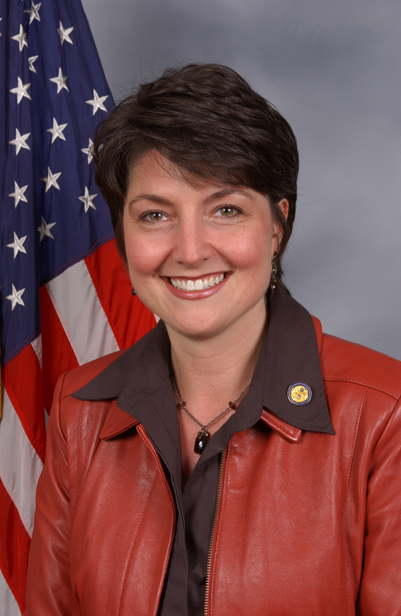 Cathy McMorris Rodgers, U.S. Congresswoman (R-Washington, 2005-present)